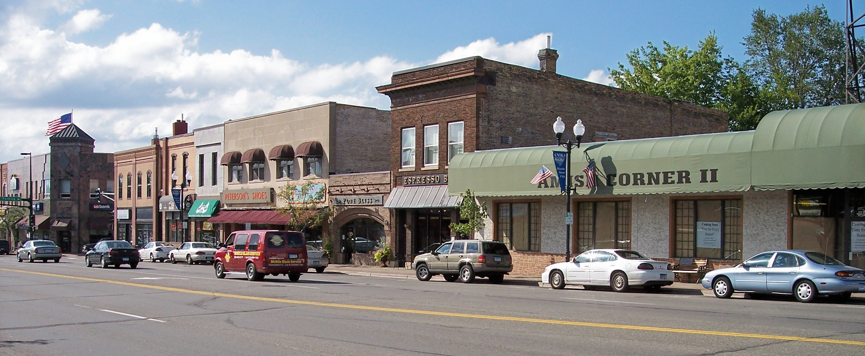 Main Street in downtown Anoka, Minnesota